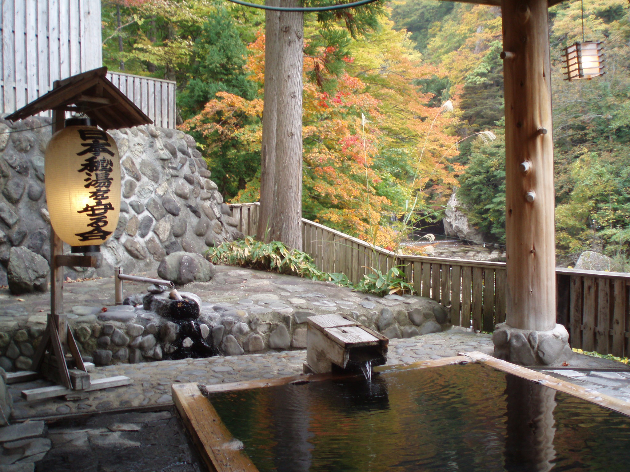 Photo of the rotenburo (outdoor bath) at Takanoyu Onsen, Akita Prefecture, Japan